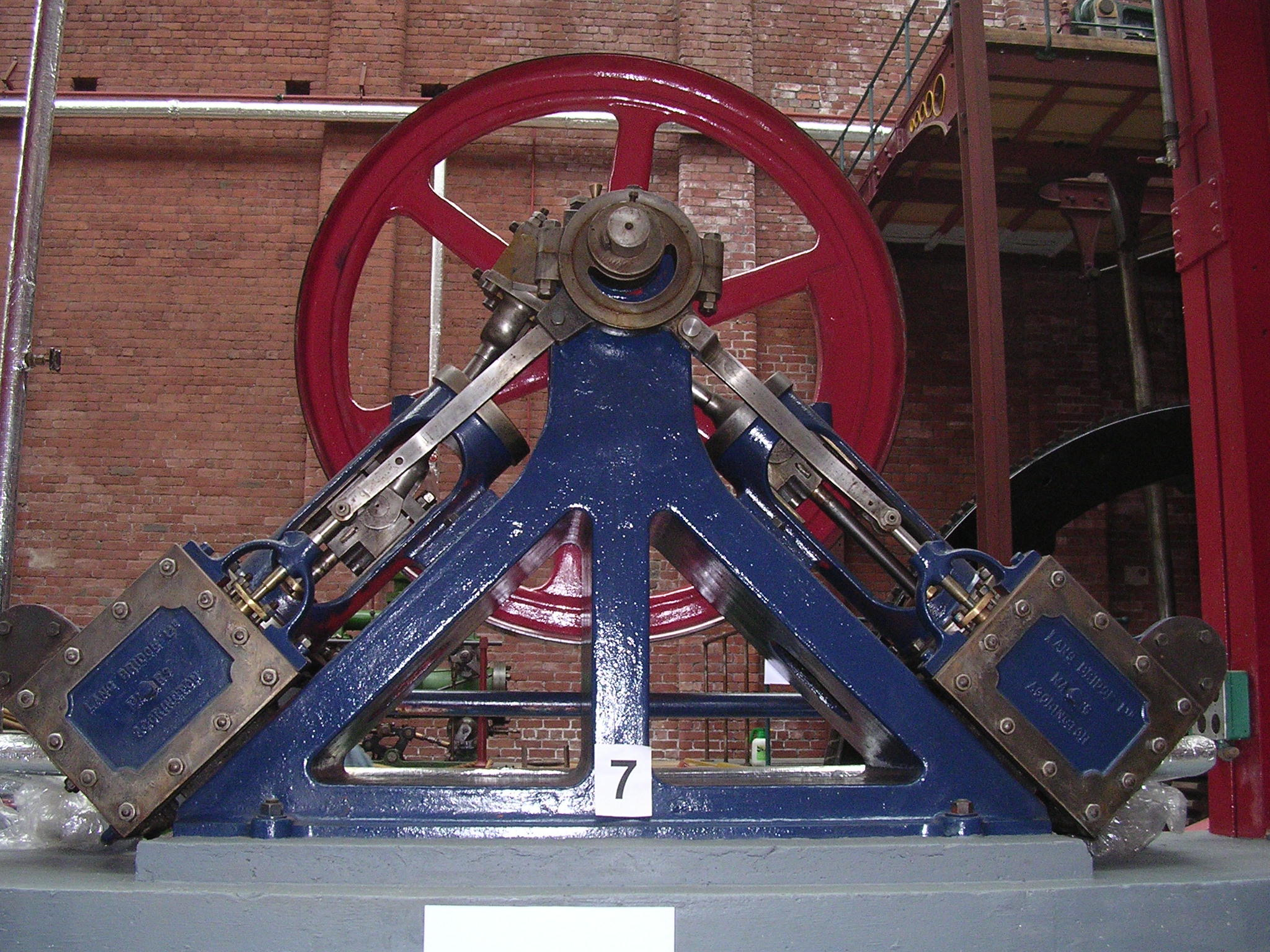 Built by Lang Bridge Ltd of Accrington. Now in Bolton Steam Museum